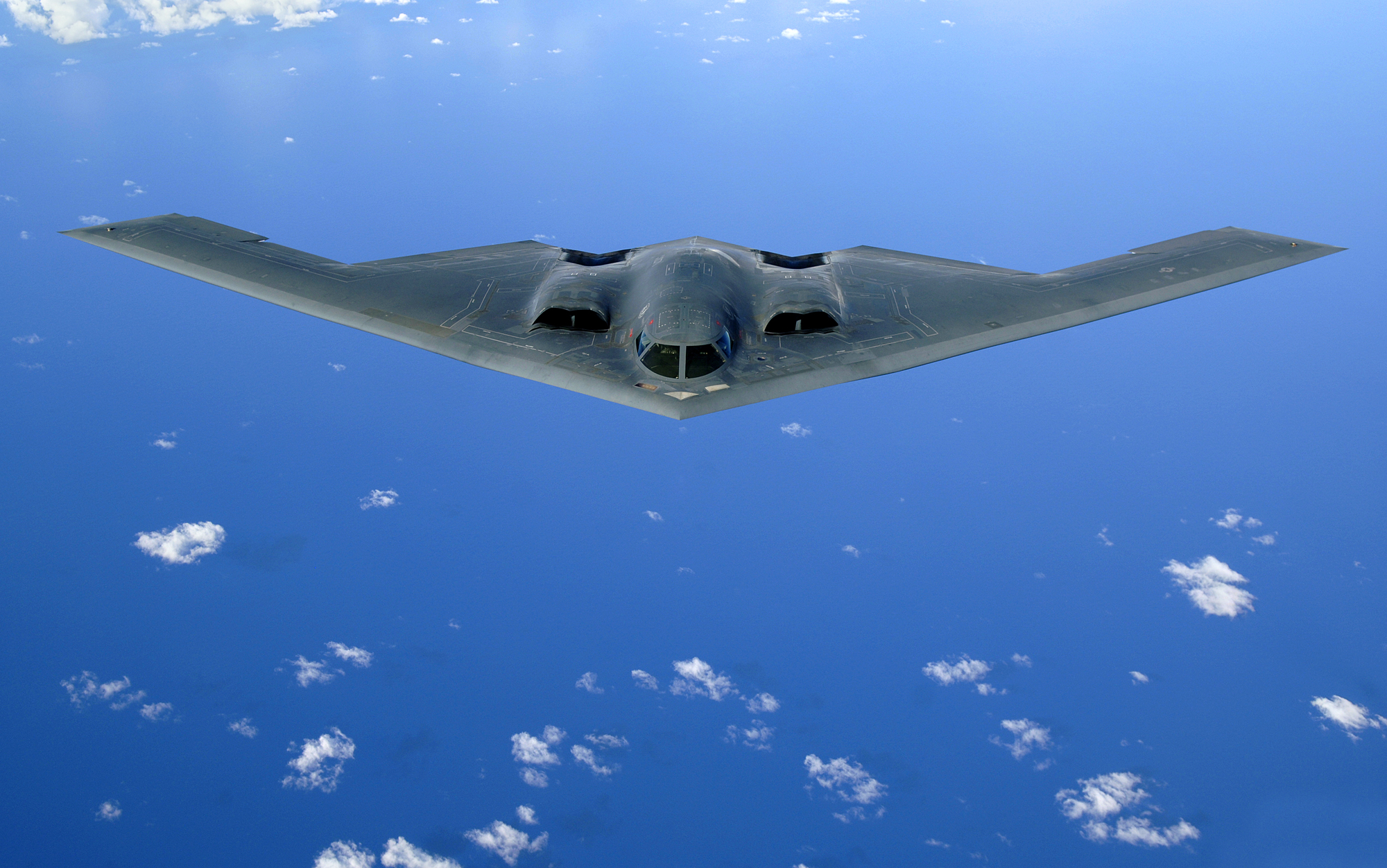 A B-2 Spirit soars after a refueling mission over the Pacific Ocean on Tuesday, May 30, 2006. The B-2, from the 509th Bomb Wing at Whiteman Air Force Base, Mo., is part of a continuous bomber presence in the Asia-Pacific region. (U.S. Air Force photo/Staff Sgt. Bennie J. Davis III)